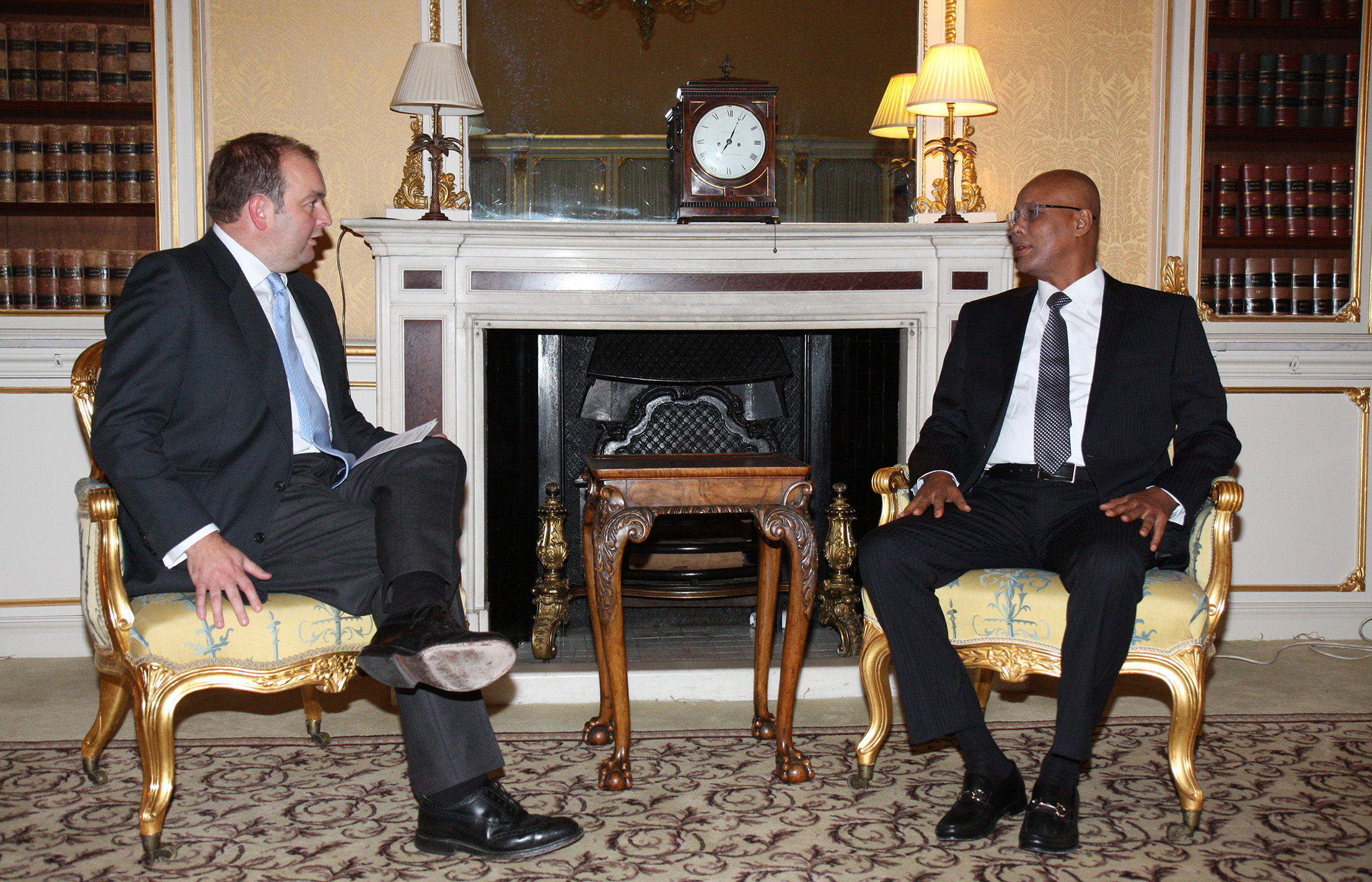 Foreign Office Minister James Duddridge meeting Prime Minister Abdiweli Sheikh Ahmed Mohamed of Somalia in London, 17 September 2014.